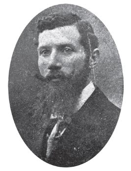 Portrait of the IMARO leader Todor Lazarov.